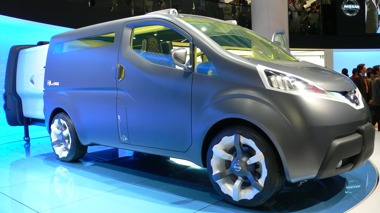 Nissan NV200 photographed in Tokyo Motor Show 2007